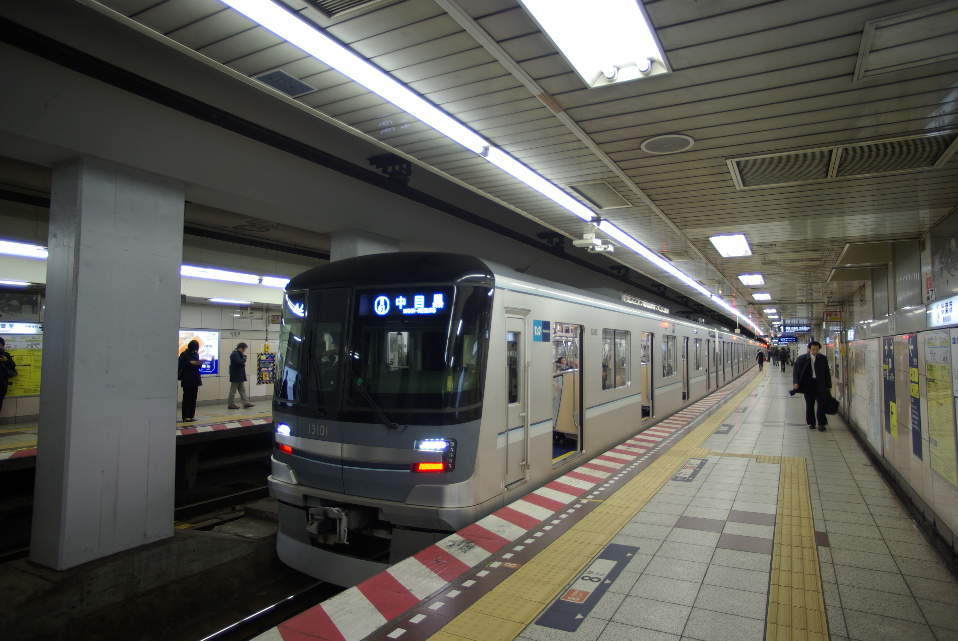 Tokyo metro Akihabara station